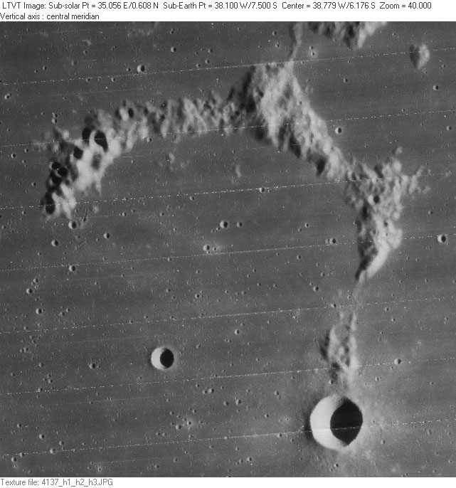 Crater Wichmann (lower right). The large crescent shape is the northern rim of Wichmann R. Small crater at center is Wichmann B. Detail from Lunar Orbiter IV-137H. High resolution scans from the USGS Lunar Orbiter Digitization Project remapped to a north-up aerial view by LTVT.